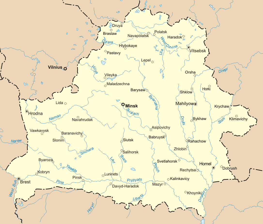 Map of rivers of Belarus with belarusian transliterated titles